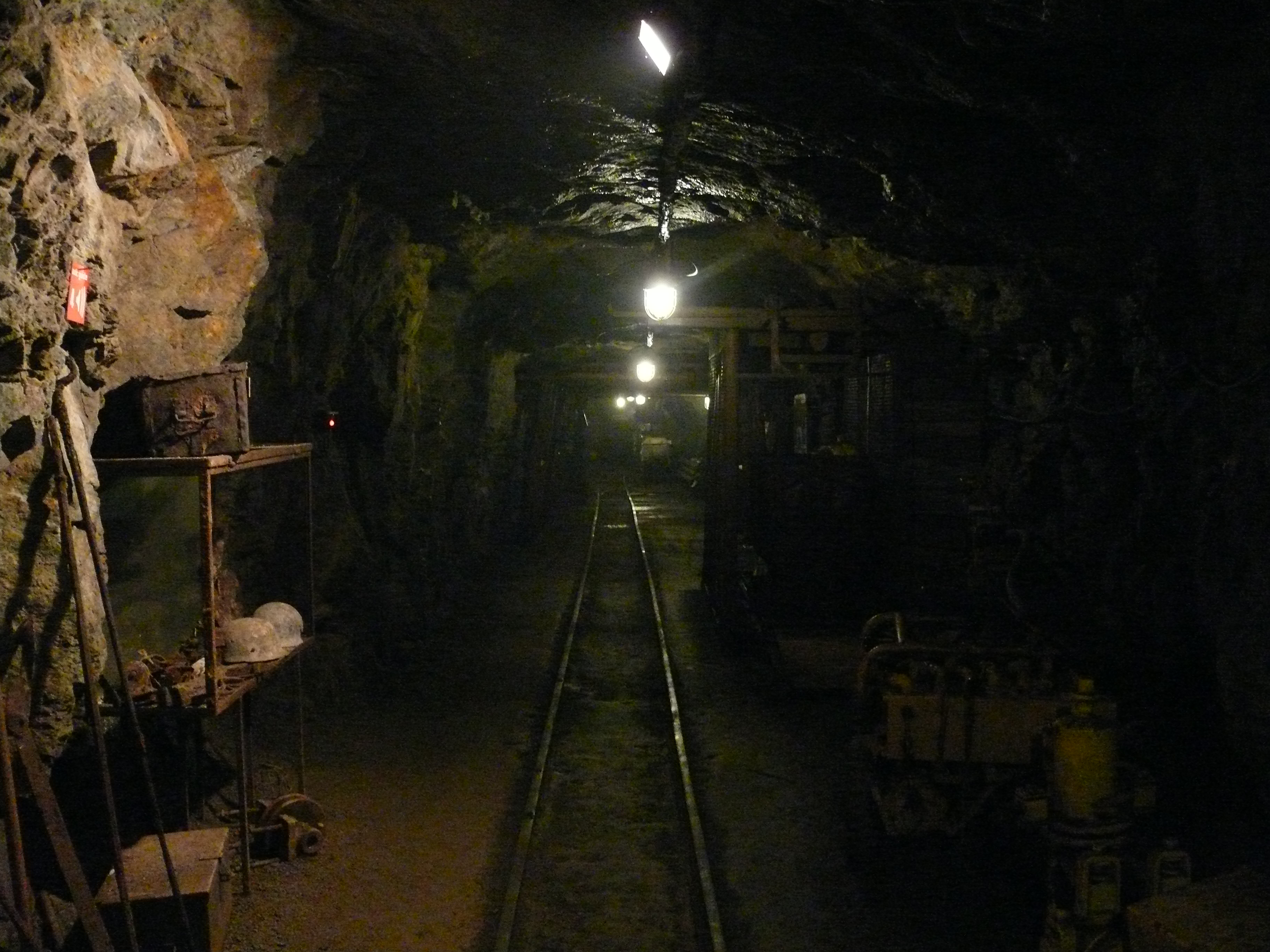 The visitor`s mine "Markus-Röhling-Stolln" in Annaberg-Buchholz in the Ore Mountains in Saxony, Germany.